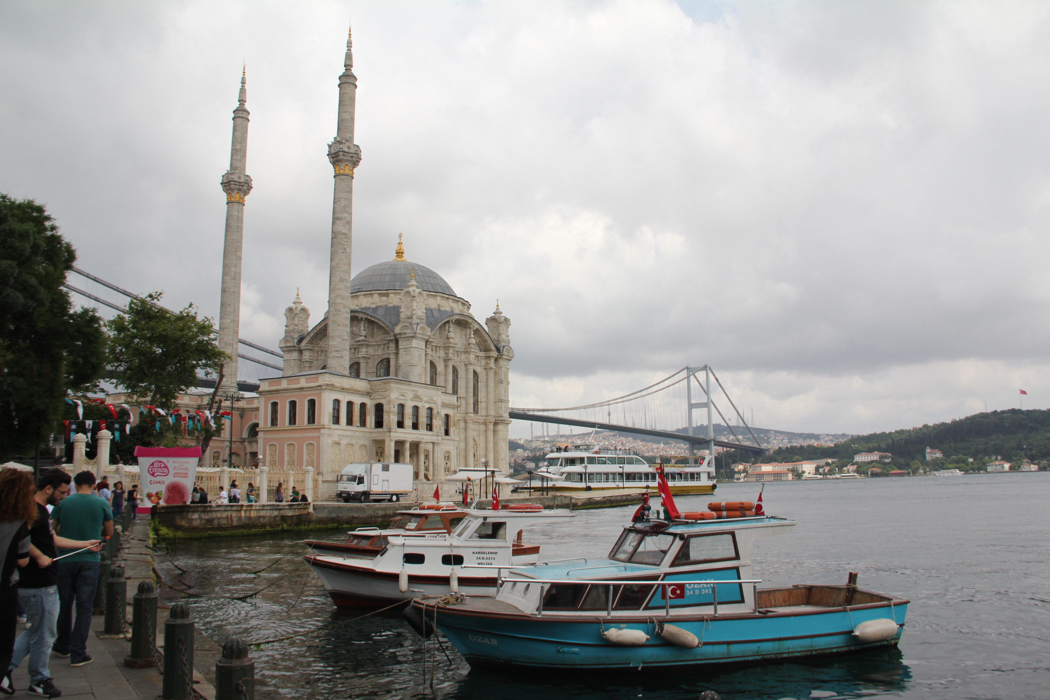 View from Ortaköy in Istanbul